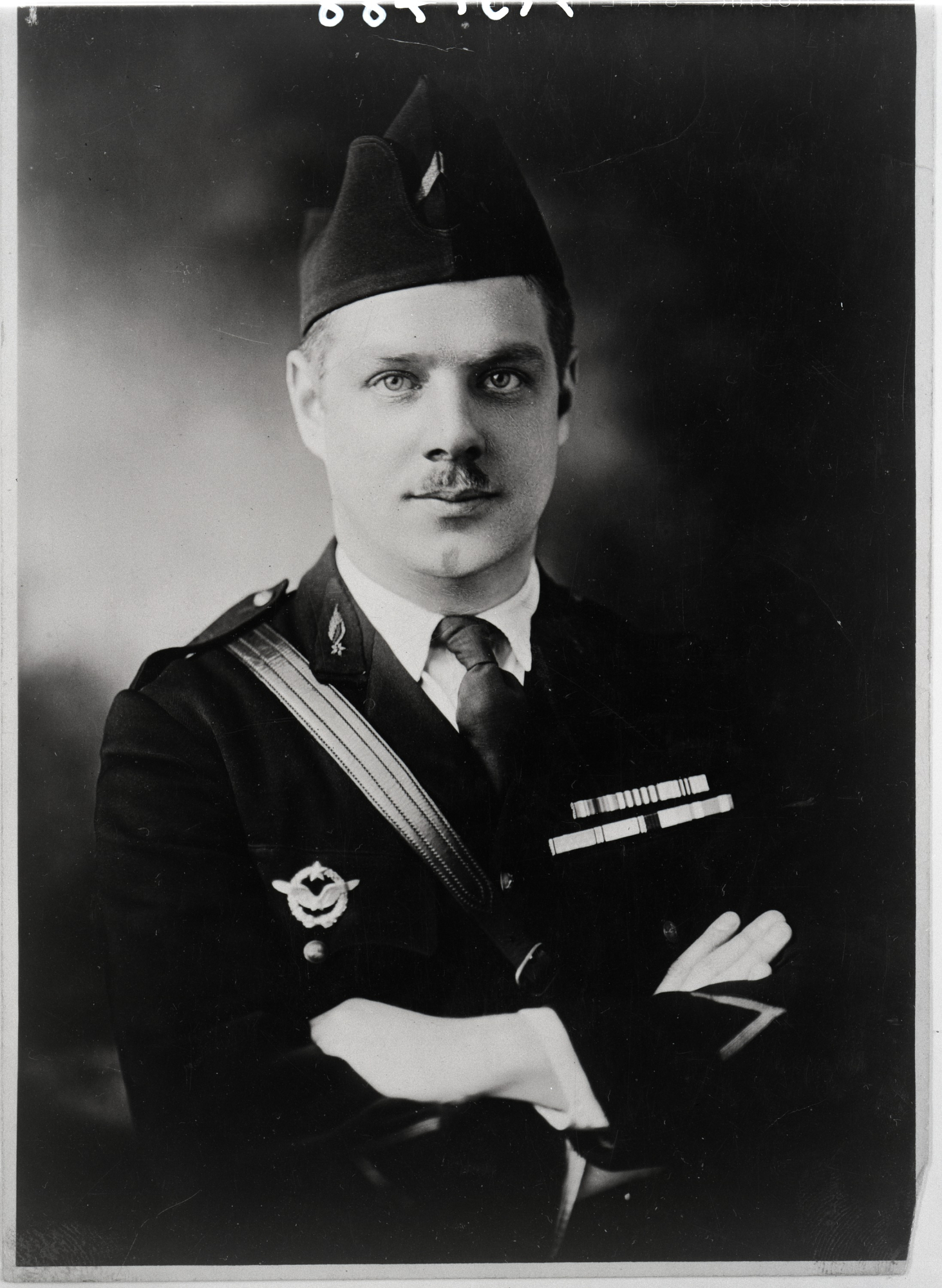 Formal photograph of Thomas M. Hewitt, Jr., a member of the Lafayette Escadrille, circa 1916-1918. National Air and Space Museum : Local number: NASM-A-51488